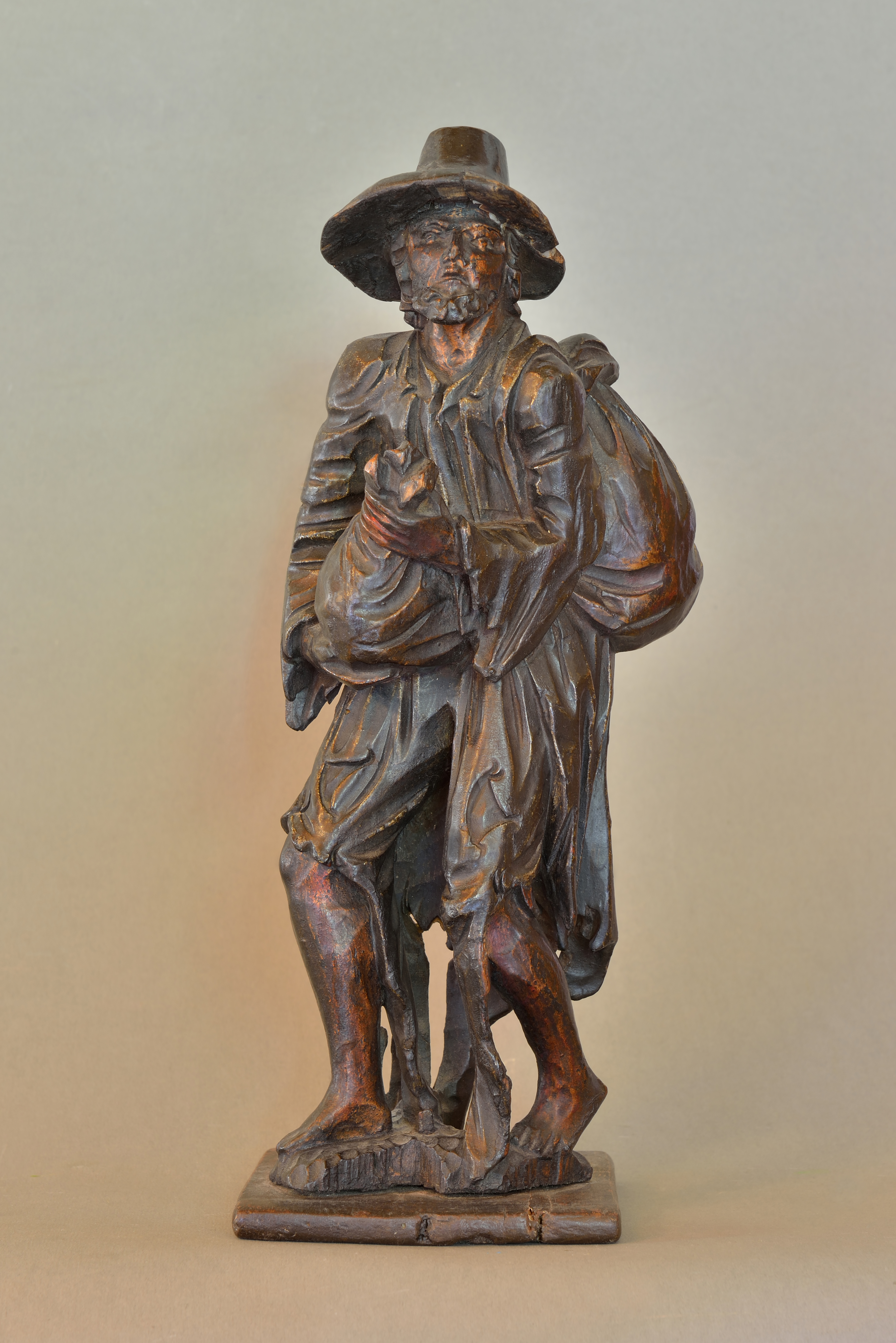 Beggar holding a bag carved in swiss pine, stained from Gröden beginning 19th century. H 21 cm.